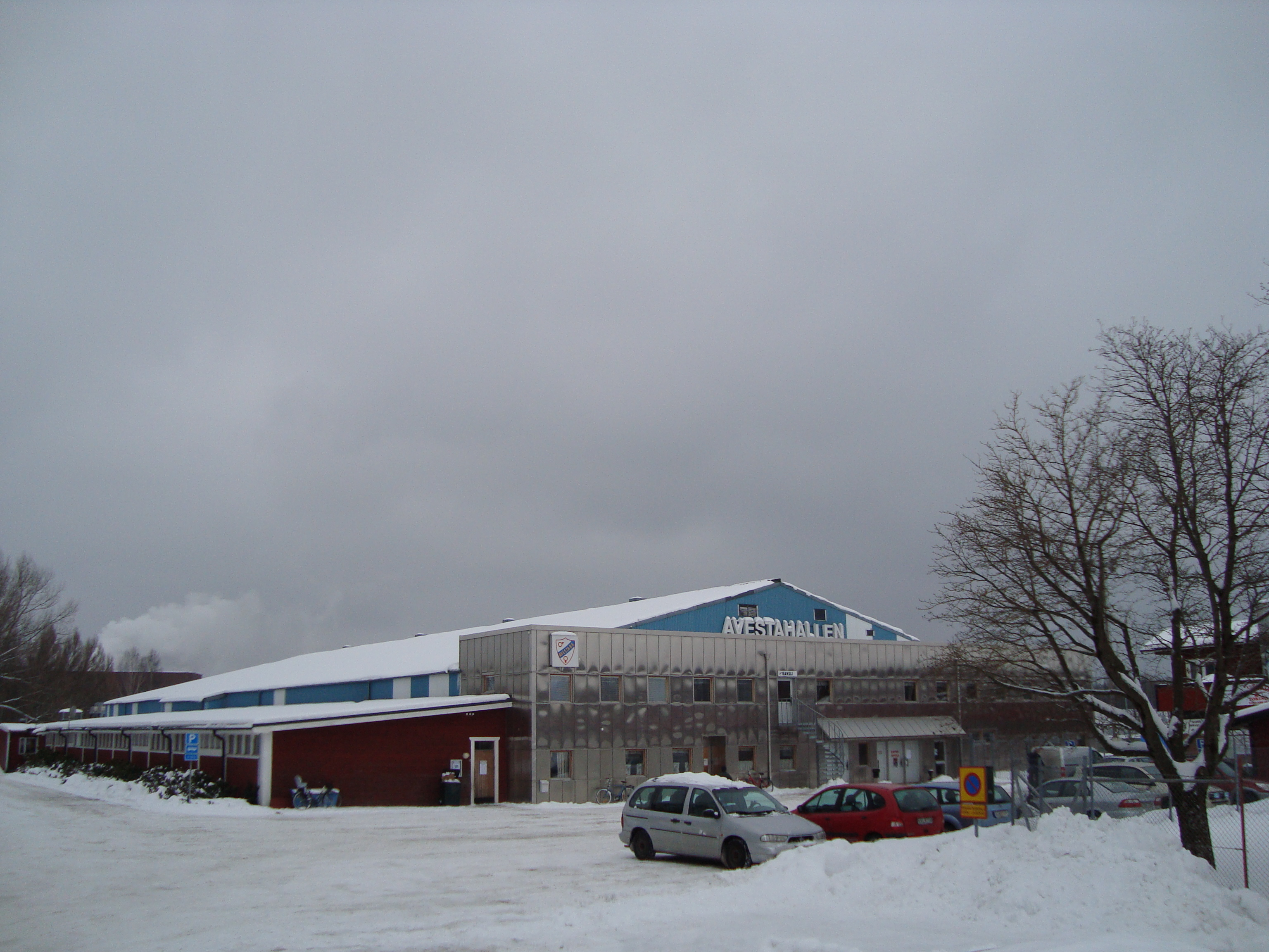 Ice hockey arena Avestahallen, Avesta, Sweden. Behind the tree to the right lies association football field Avestavallen. The smoke in the left part of the background comes from Avesta iron works (Outokoumpo).